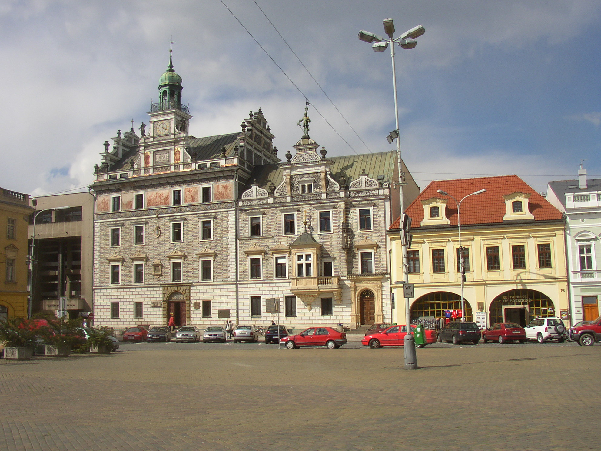 Kolín, Central Bohemian Region, Czech Republic. Charles Square, a town hall.